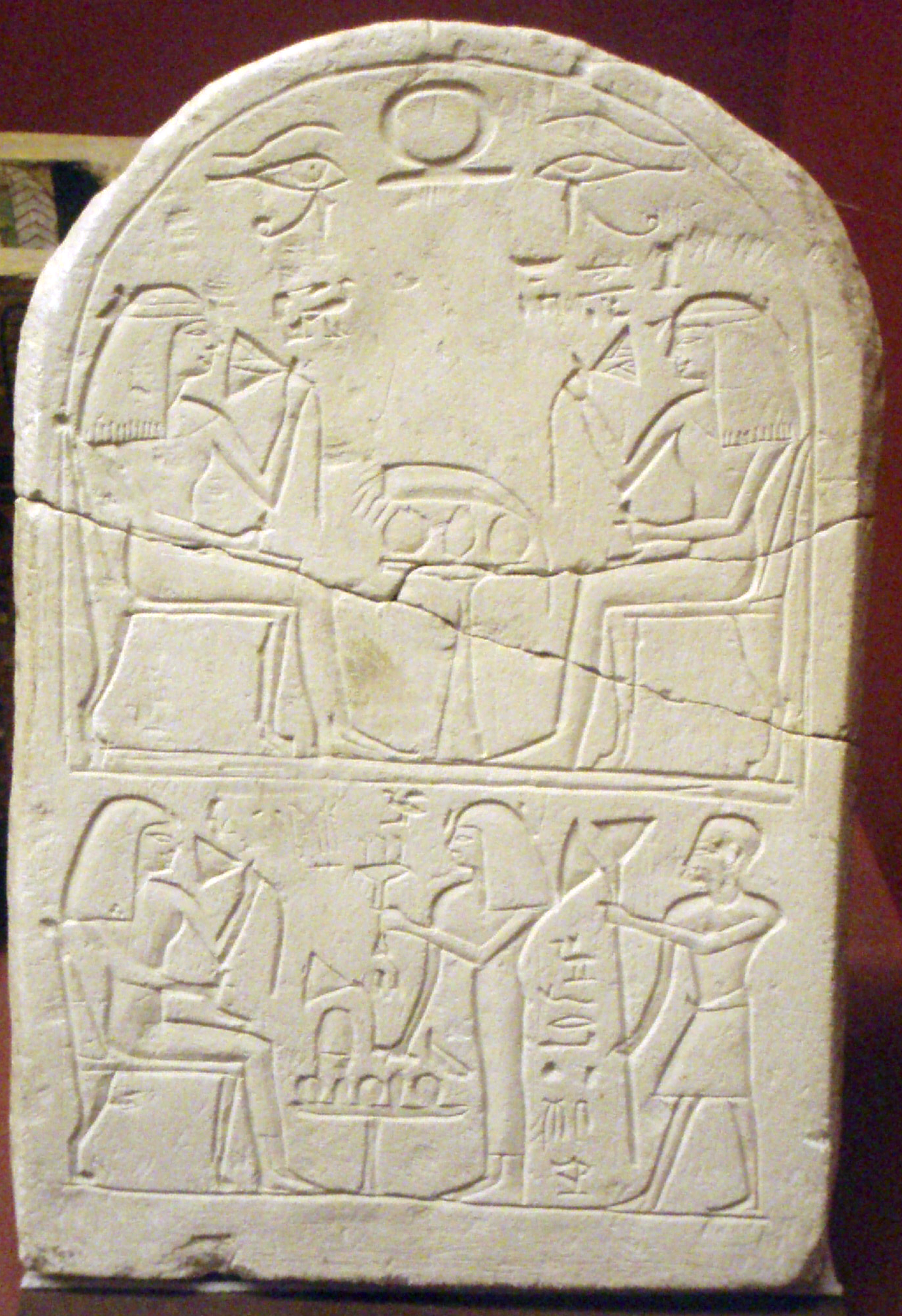 Offering Stele for a "Lady of the House". A woman receives offerings from her daughter in the top register, and is given incense and a lotus by her daugher and son. From the 19th dynasty. RC 1746.